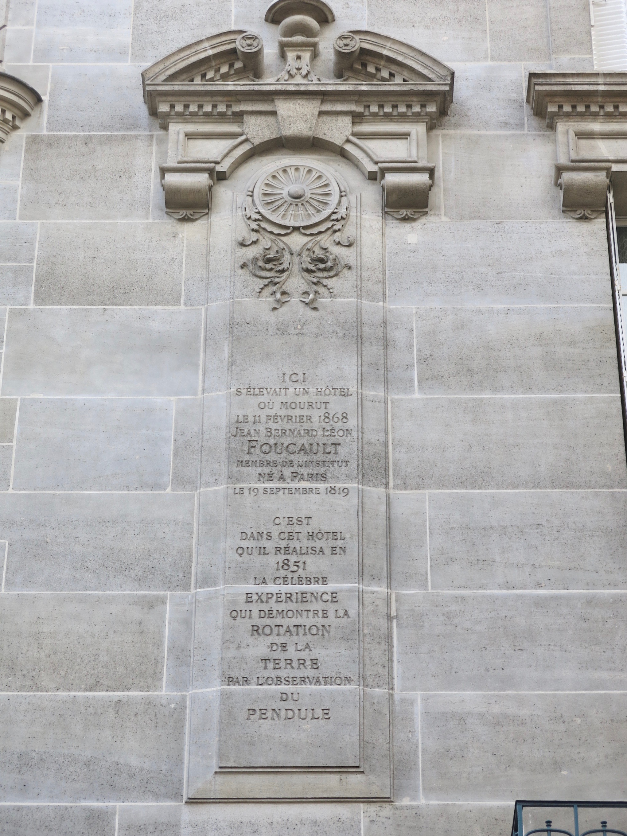 Plaque at the place of the former building in which Léon Foucault proved with its pendulum the rotation of the Earth. 28 rue d'Assas, Paris 6th arrond. (France).